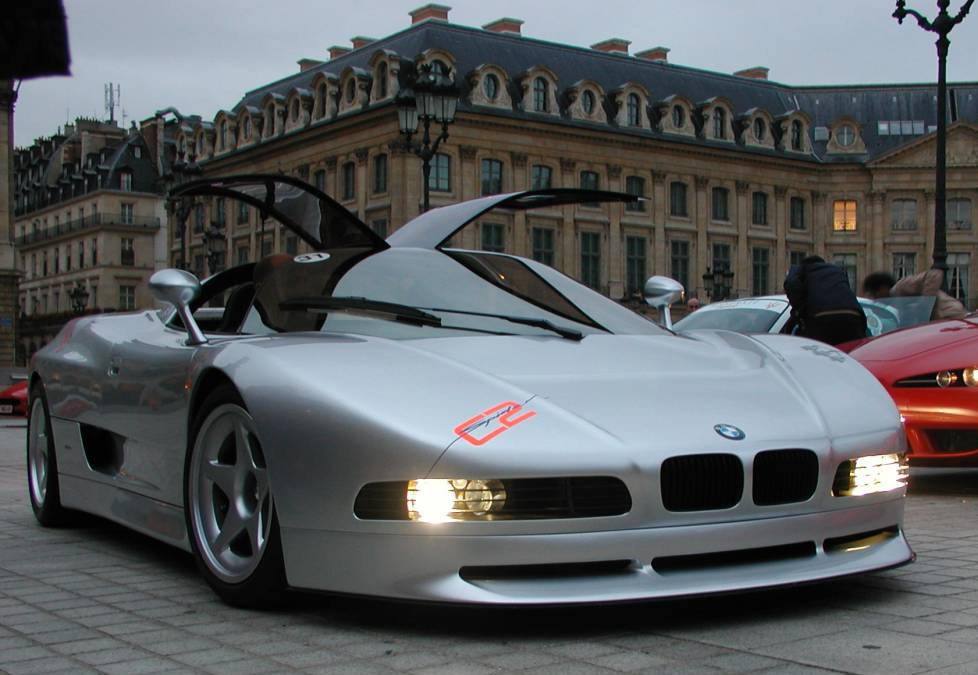 The BMW Nazca C2 or Italdesign Nazca C2 or Italdesign Nazca M12, is a 1991 concept sports car. The car was designed by famed automotive engineering company Italdesign, home of Giorgetto Giugiaro, and features a similar frontal design of a BMW. The car is equipped with the Neuromotion FC6 engine (6.0 L V12 twin-turbocharged) from BMW and produces 380 bhp (283 kW; 385 PS). The car has a top speed of 195 mph (314 km/h). Three cars in total were produced.